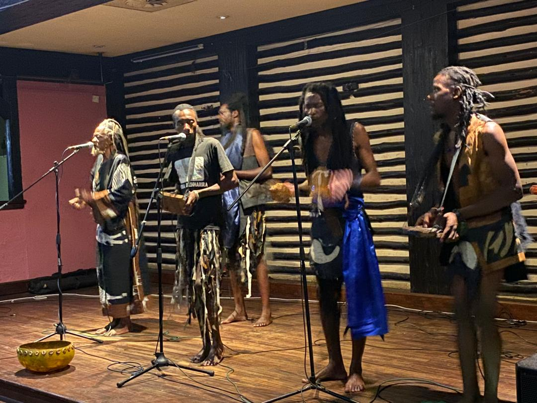 Mbira music Group found in Zimbabwe, they have kept the art of African Culture alive by music.